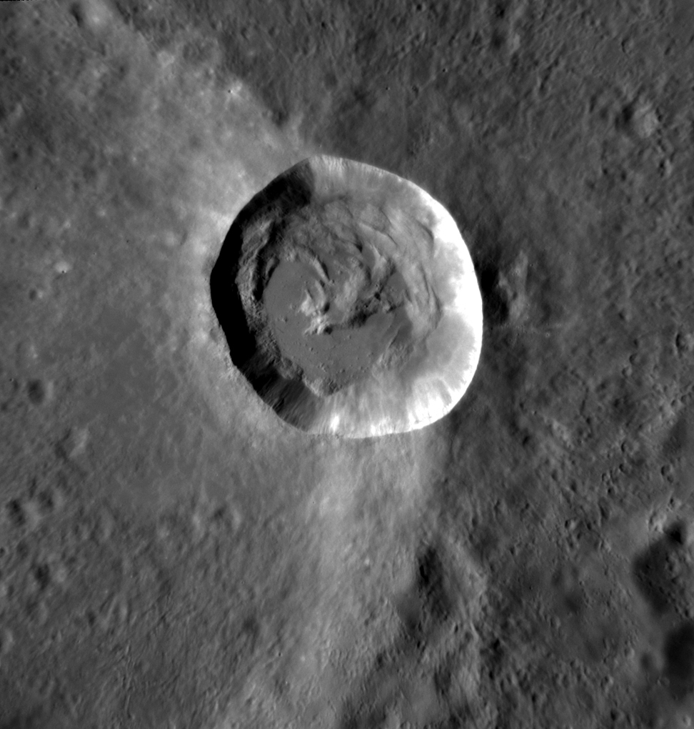 Date acquired: November 13, 2013 Image Mission Elapsed Time (MET): 26657614 Image ID: 5189176 Instrument: Narrow Angle Camera (NAC) of the Mercury Dual Imaging System (MDIS) Center Latitude: -0.24° Center Longitude: 235.3° E Resolution: 37 meters/pixel Scale: Mena crater has a diameter of 15 km (9 miles) Incidence Angle: 54.7° Emission Angle: 23.4° Phase Angle: 71.0° Of Interest: Here we get a closer look at the fresh, bright-rayed crater Mena. Solidified impact melt forms a smooth pond on the western side of the crater floor. This asymmetry is due to the fact that Mena formed on the sloping rim of an older crater, as seen in this wider view. This image was acquired as a targeted set of stereo images. Targeted stereo observations are acquired at resolutions much higher than that of the 200-meter/pixel stereo base map. These targets acquired with the NAC enable the detailed topography of Mercury's surface to be determined for a local area of interest.